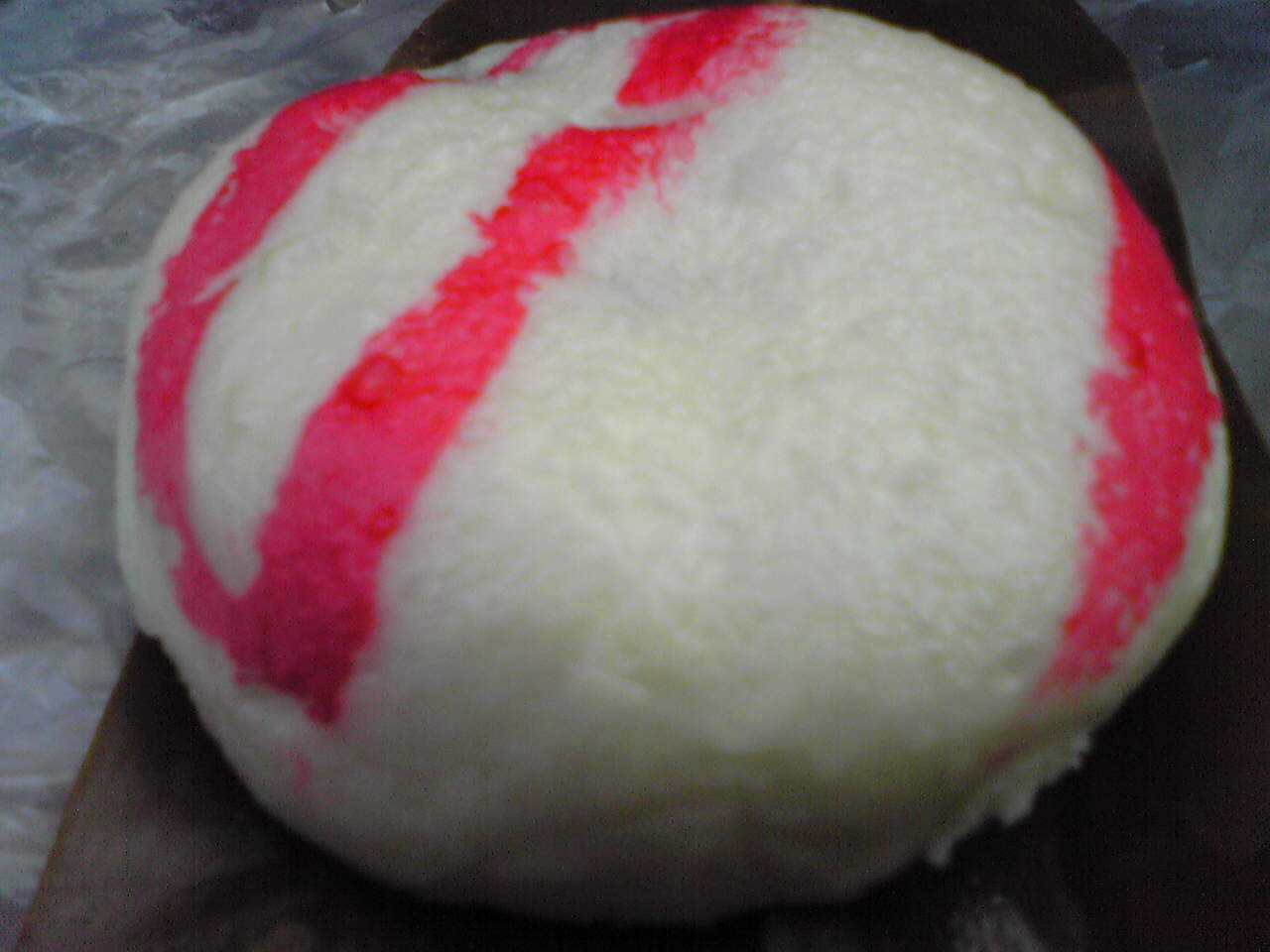 This photo is "Noh Manju". "Noh Manju" is a traditional Japanese confection produced only in Okinawa.